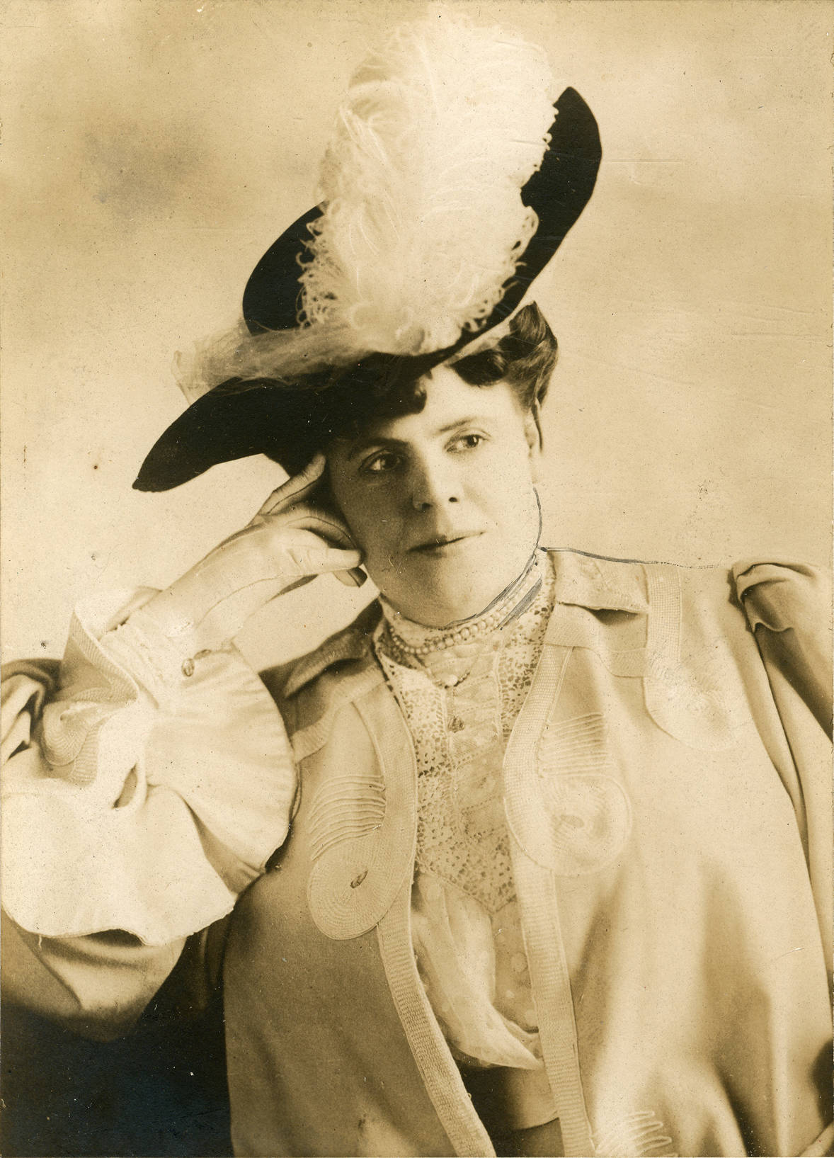 Marie Dressler, stage actress Subjects: actresses